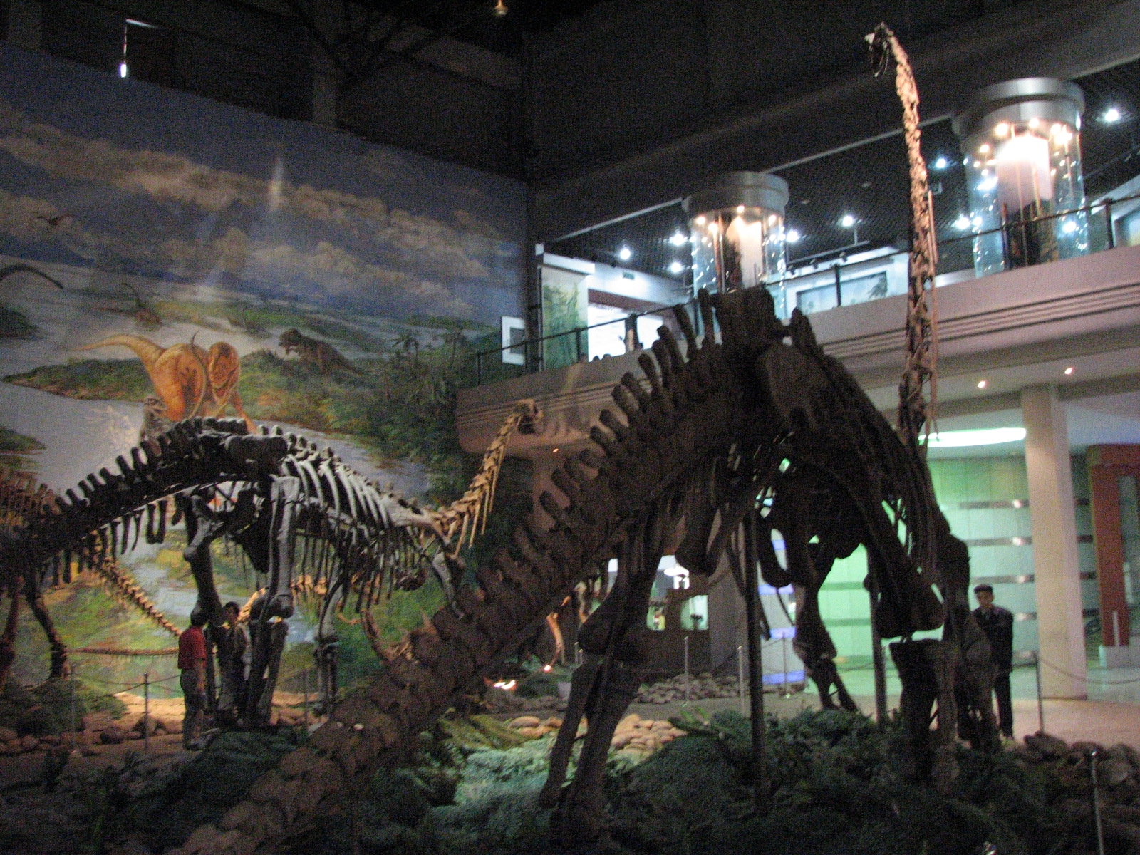 The main floor of the Zigong Dinosaur Museum. The large Dinosaur in the foreground is Mamenchisaurus youngi.